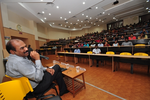 VIT Business School